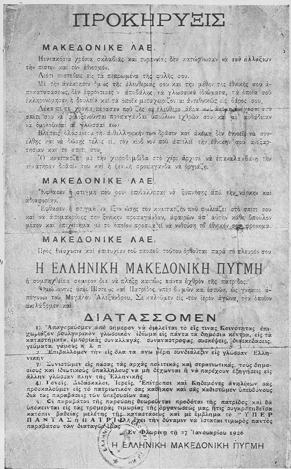 Proclamation of Greek Macedonian Fist in greek, in which it is stated that bulgarian language is forbidden for the locals in Aegean Macedonia